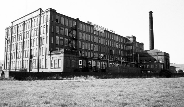 Ellen Road Ring Mill at Newhey, Greater Manchester, England, in 1984.